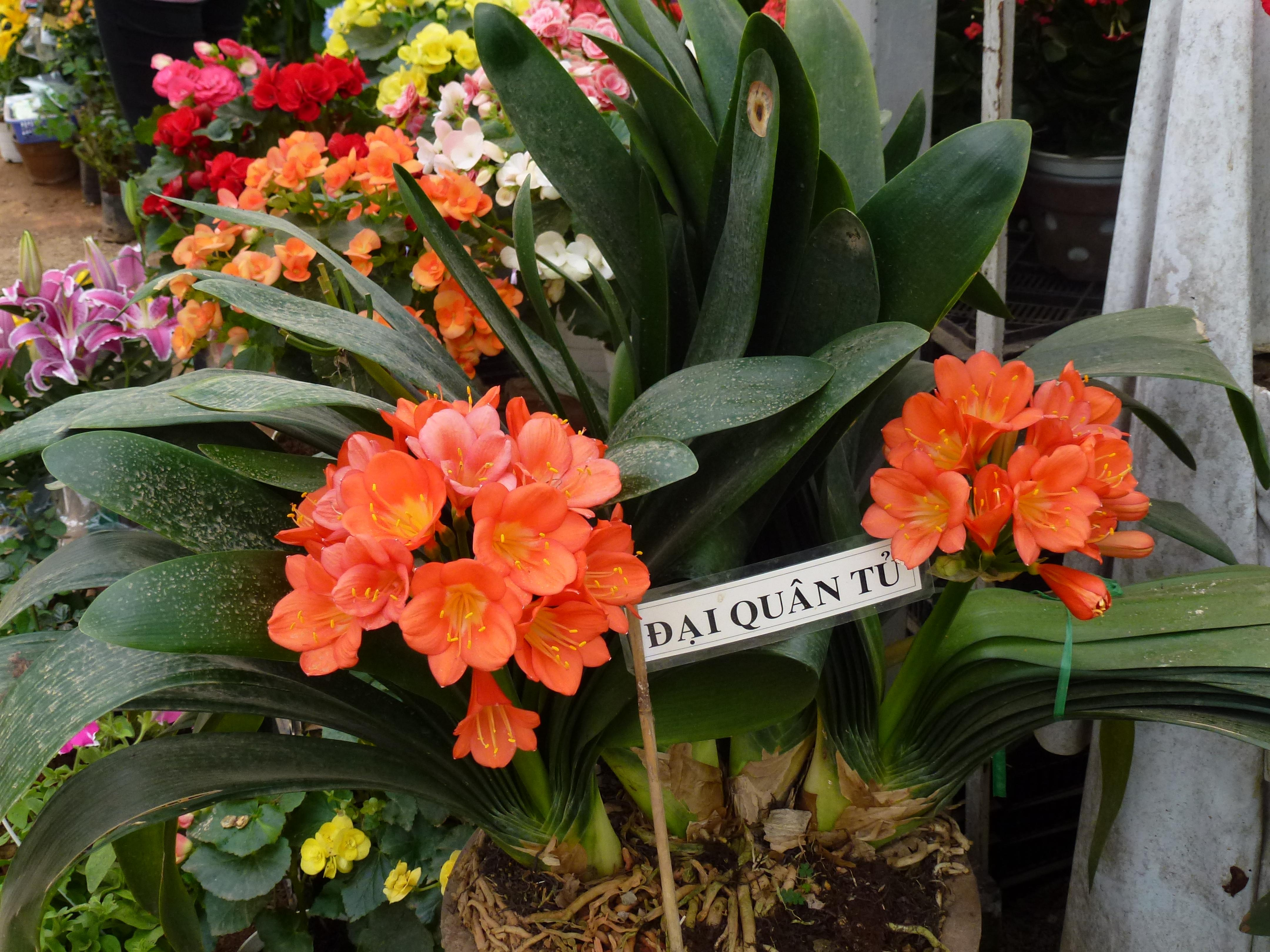 Clivia flower in DalatTiếng Việt: Hoa đại quân tử ở Đà Lạt